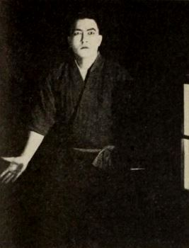 Still from the American drama film His Birthright (1918) with Sessue Hayakawa, on page 28 of the August 17, 1918 Exhibitors Herald.